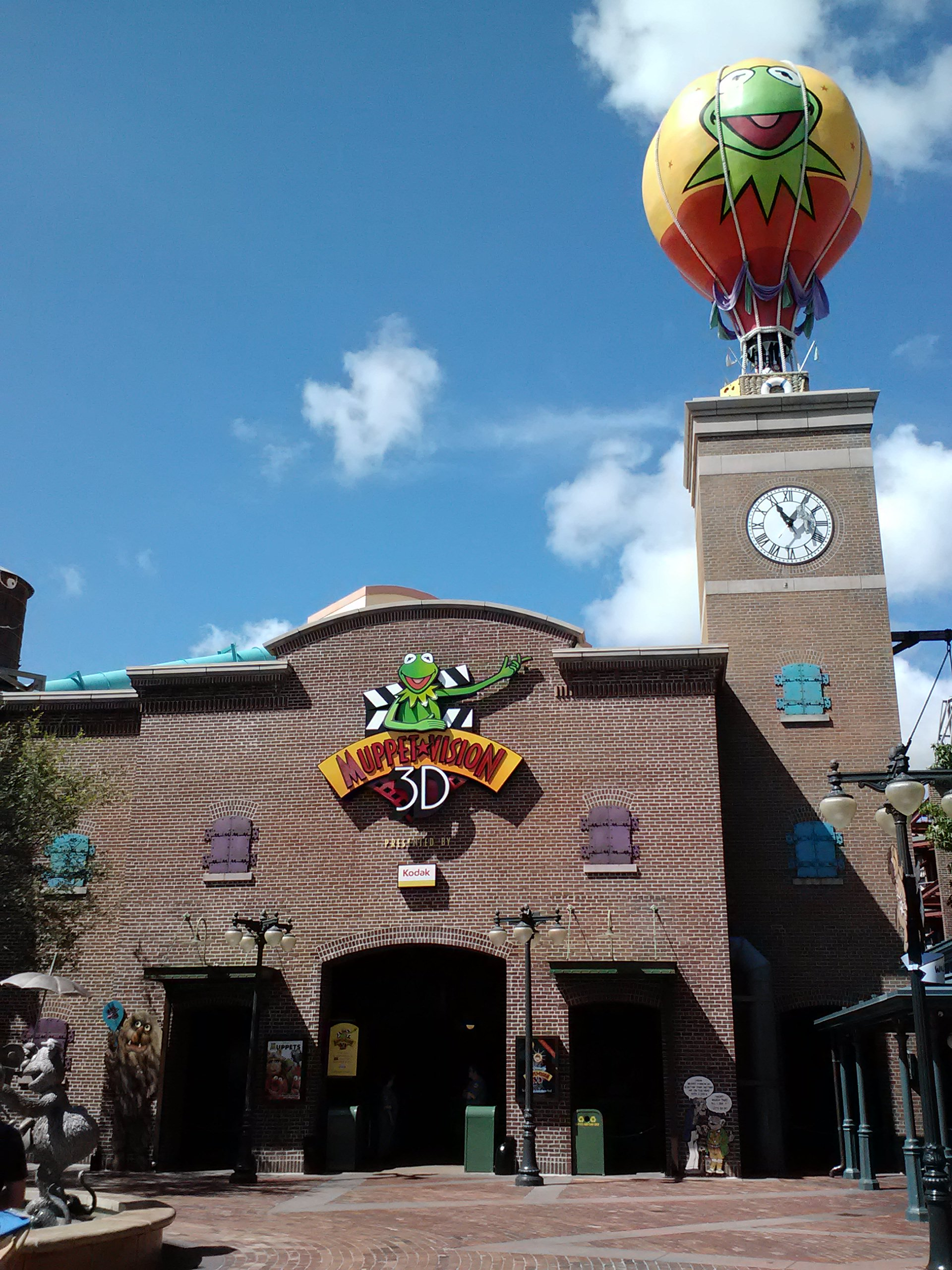 The entrance and exterior of the Muppet*Vision 3D attraction at Disney's Hollywood Studios.